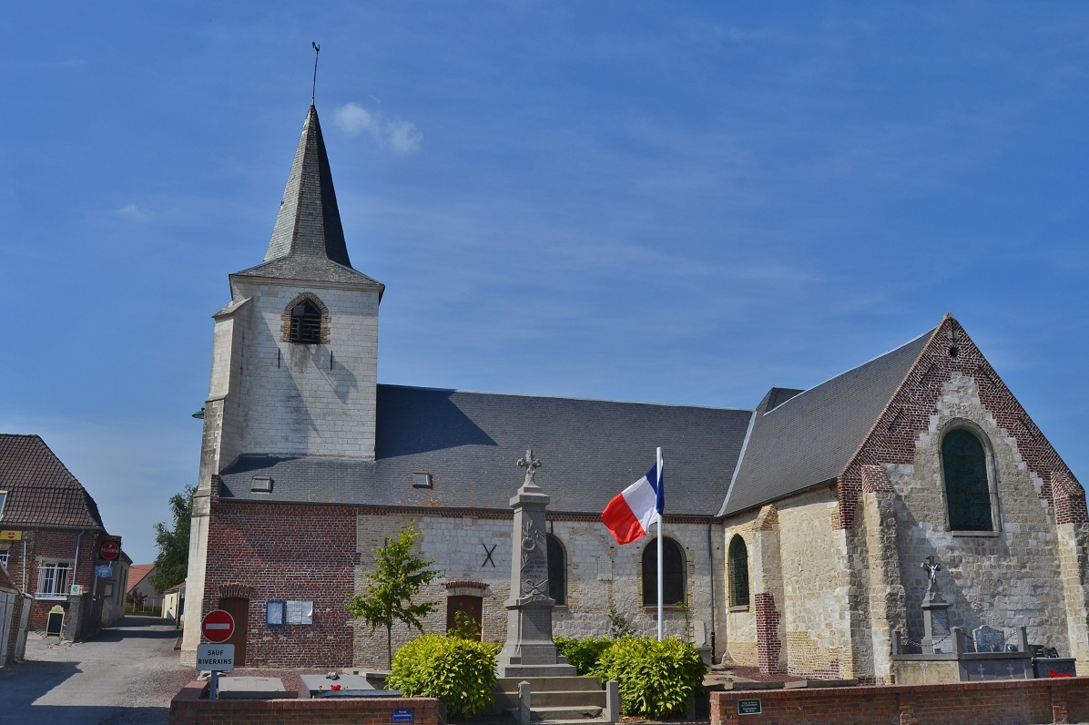 L'église